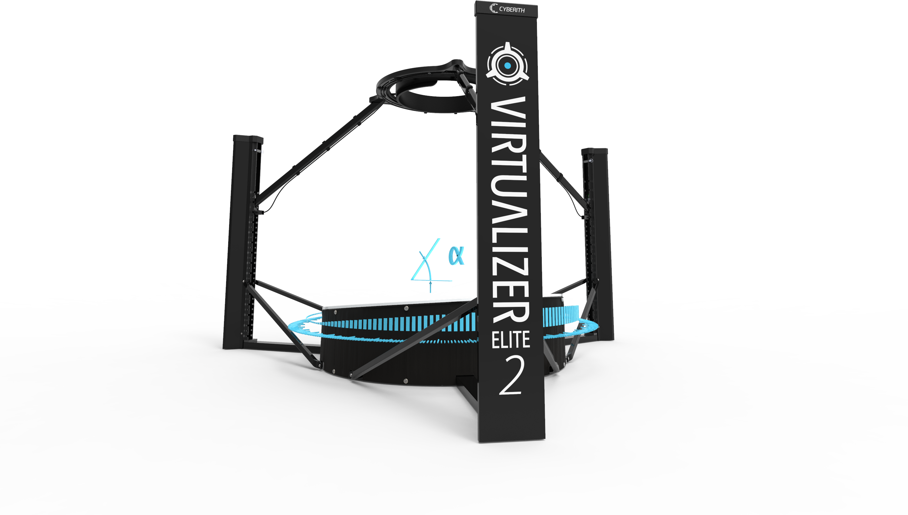 The Cyberith Virtualizer ELITE 2 allows a user to walk and run through virtual environments of many kinds. The second generation product includes an actively powered 2 DOF motion platform for supporting the user's movement.